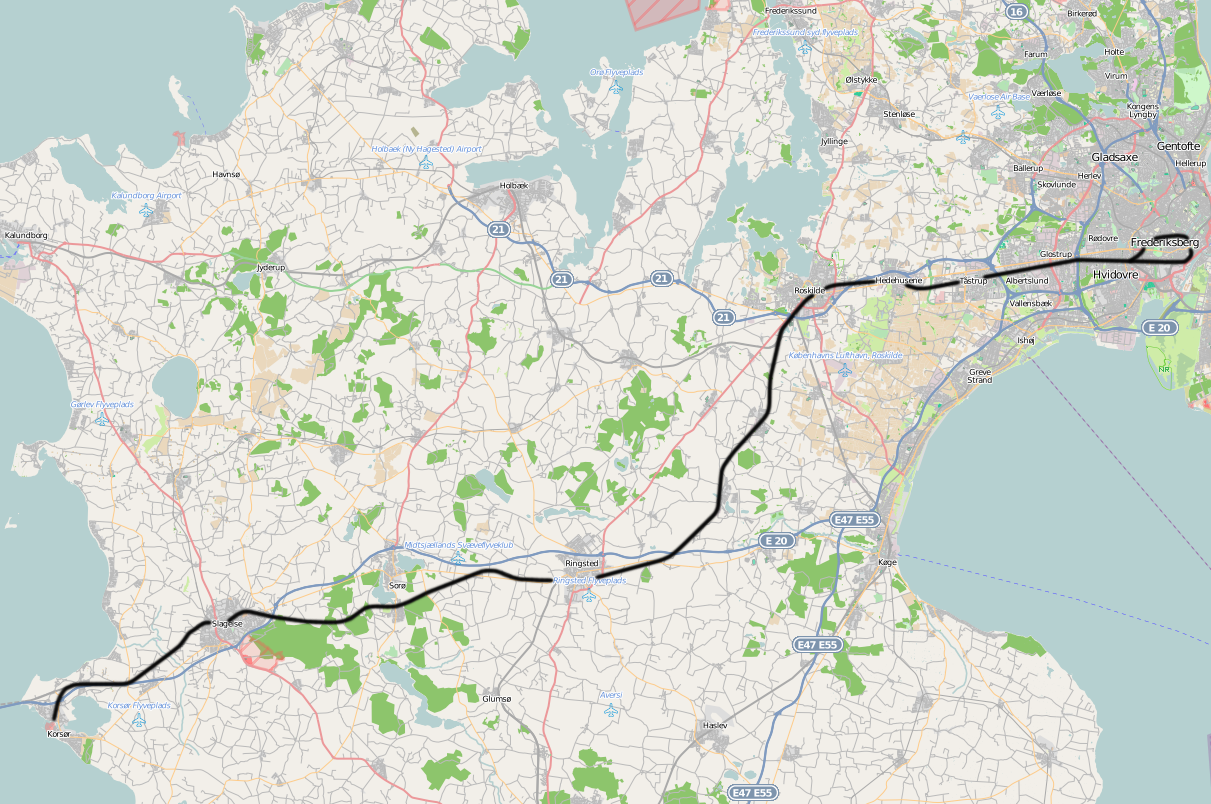 Railway line Copenhagen - Korsør